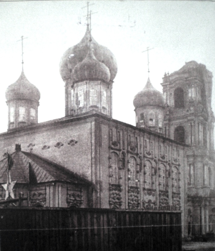 Assumption Cathedral in the Tula Kremlin